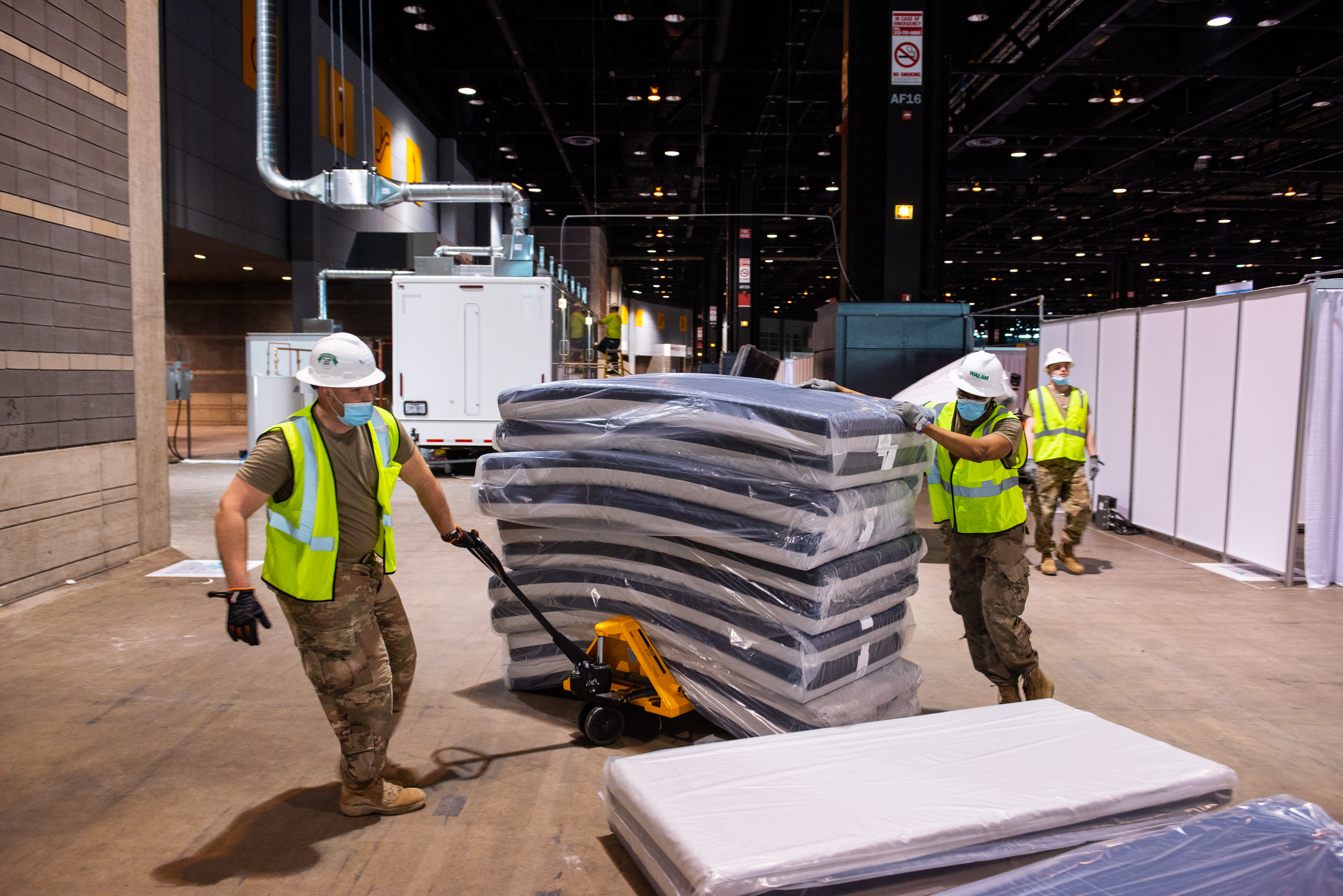 Members of the Illinois Air National Guard assemble medical equipment at the McCormick Place Convention Center in response to the COVID-19 pandemic in Chicago, Ill., April 8, 2020. Approximately 60 members of the Illinois Air National Guard were activated to support the US Army Corps of Engineers and the Federal Emergency Management Agency (FEMA) to temporarily convert part of the McCormick Place Convention Center into an Alternate Care Facility (ACF) for COVID-19 patients with mild symptoms who do not require intensive care in the Chicago area. (U.S. Air Force Photo by Senior Airman Jay Grabiec)